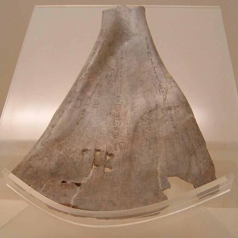 Oracle bone with Old Chinese inscription, attributed to the Lì (歷) diviner group 2 in oracle bone period II (kings Zu Geng and Zu Jia).